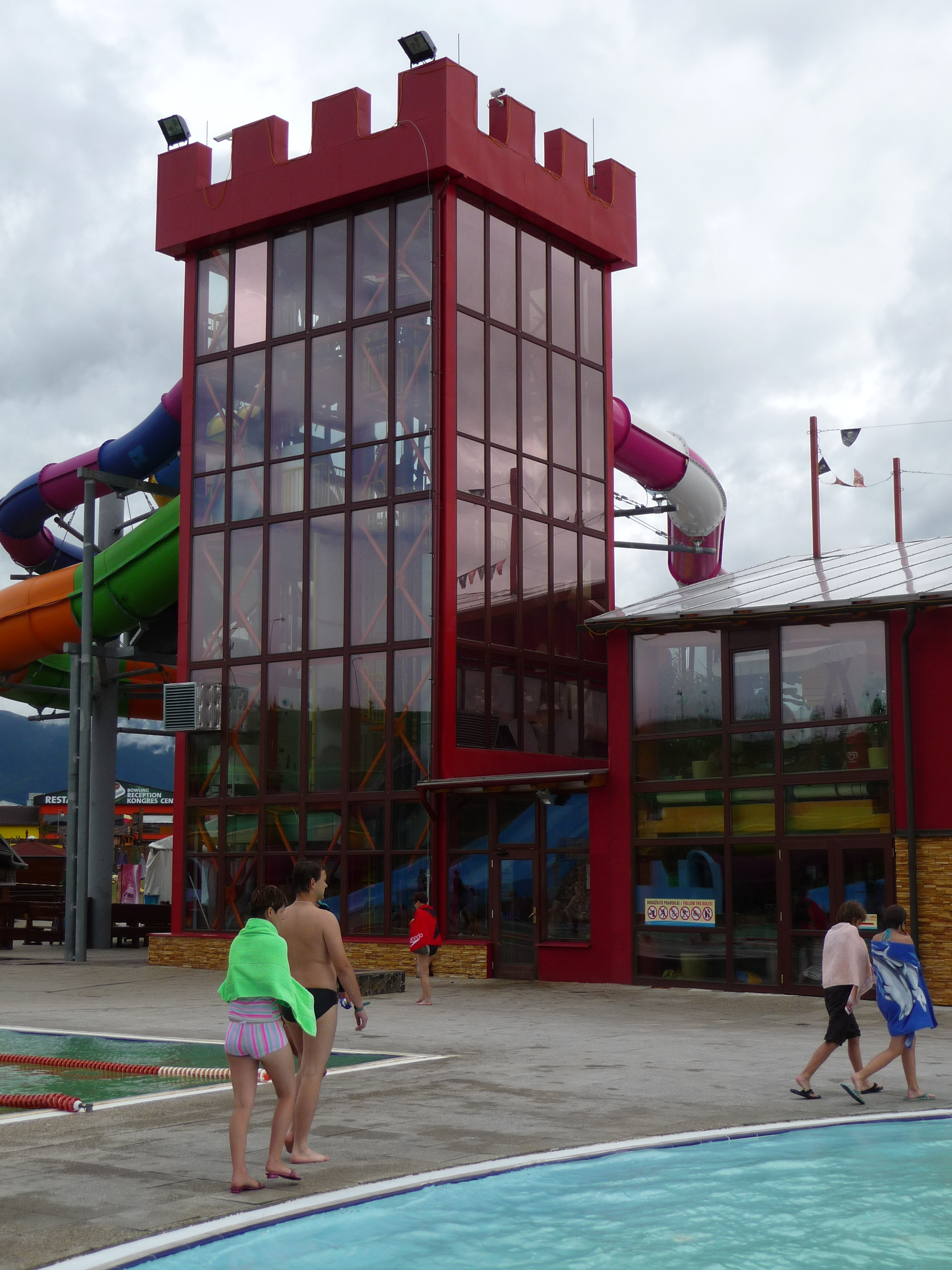 Water park Tatralandia in Slovakia